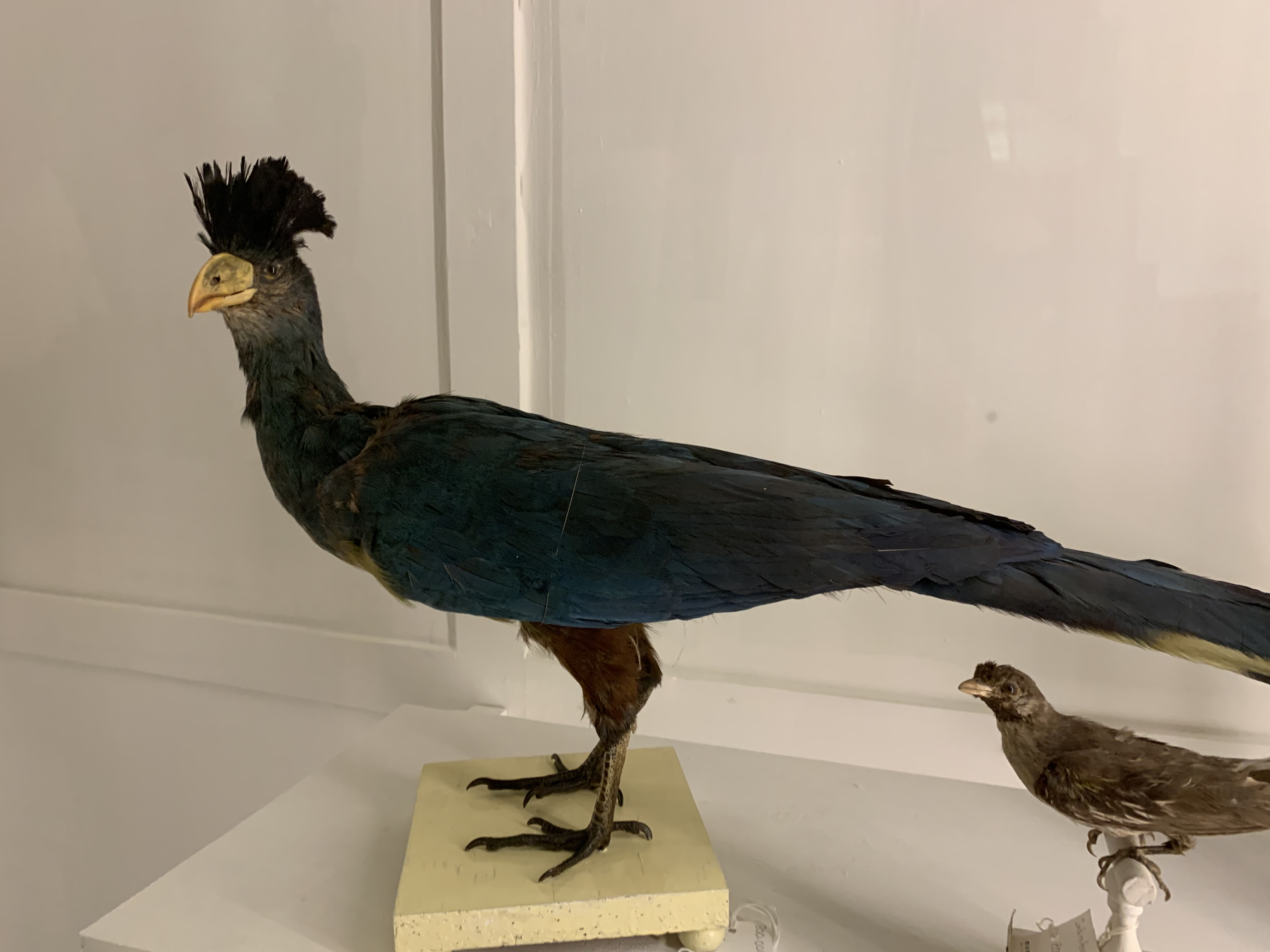 Taxidermied Great Blue Turaco (Corythaeola cristata) at Museu da Ciência da Universidade de Coimbra